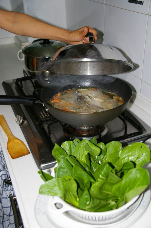 Whats for lunch? Fish Soup!Sabrina's signature dish.fish soup 2